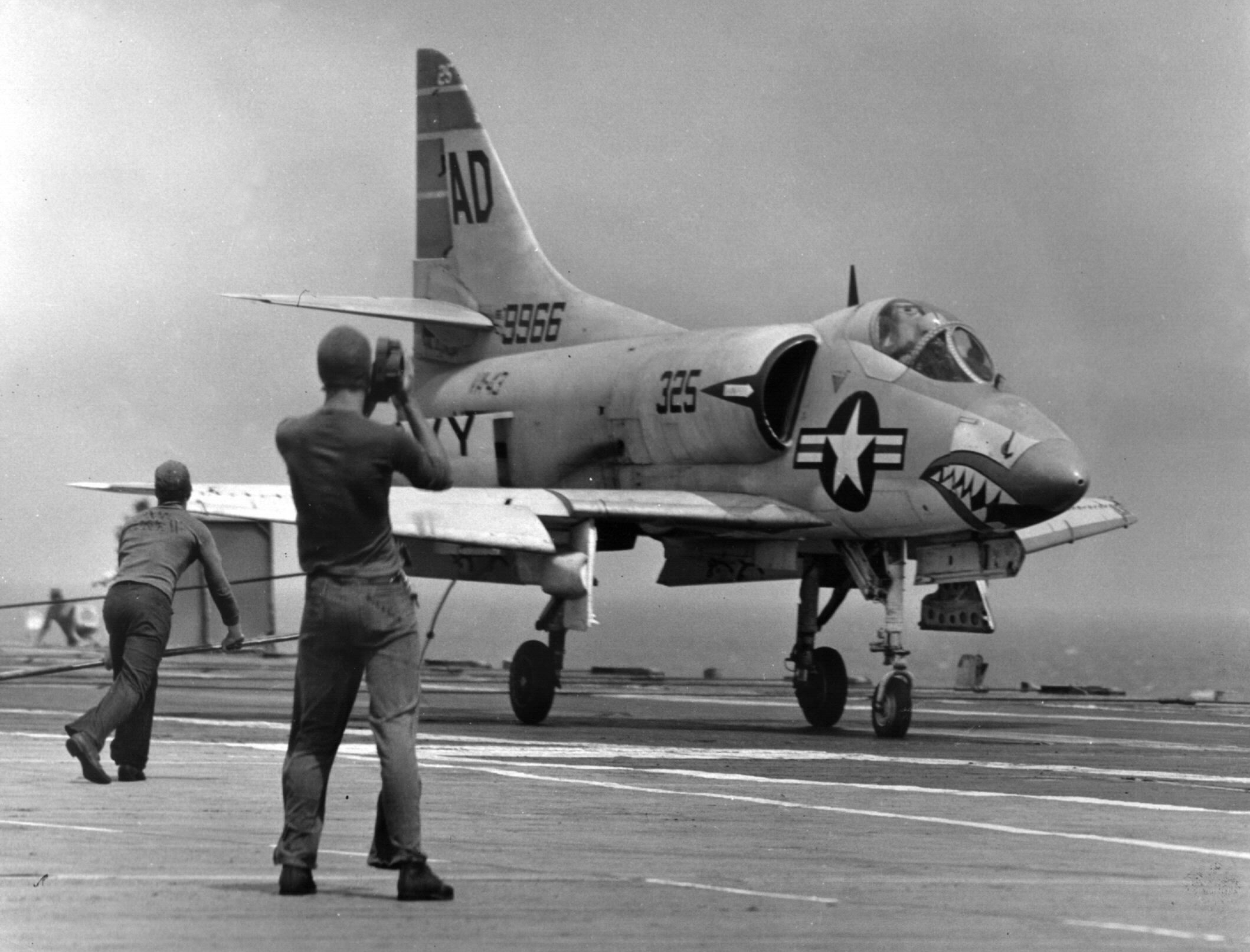 A U.S. Navy Douglas A4D-1 Skyhawk (BuNo 139966) of Attack Squadron VA-43 on the deck of the training carrier USS Antietam (CVS-36) near Naval Air Station Oceana, Virginia (USA).